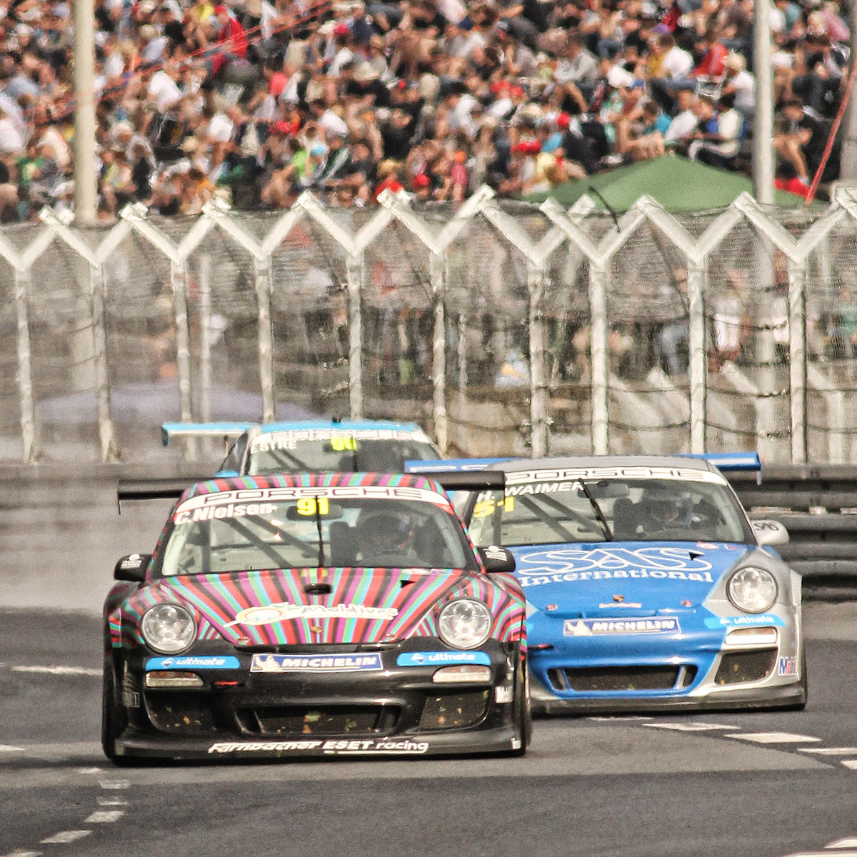 Martin Hoefer Media Art Car at Norisring 2012